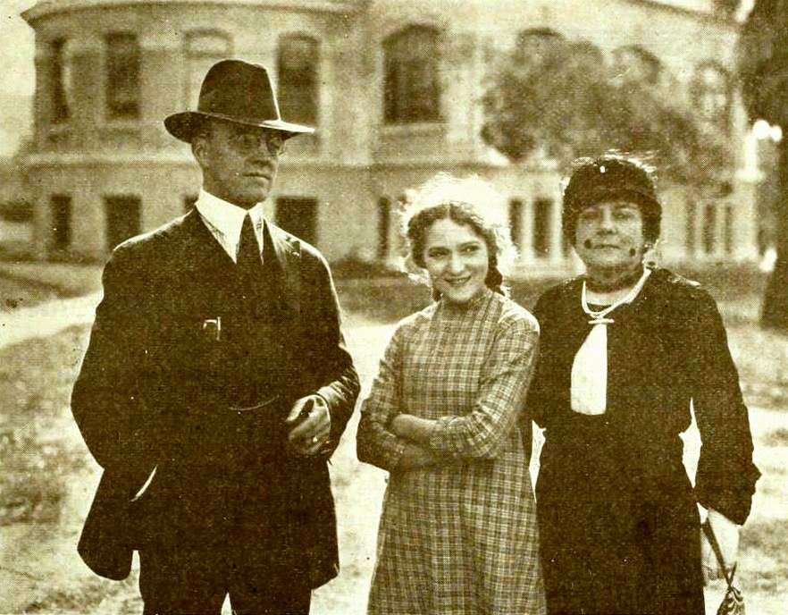 Secretary of First National Pictures Harry O. Schwalbe, actress Mary Pickford dressed for her role in the American film Daddy-Long-Legs (1919), and Mary's mother Charlotte Hennessey (listed as Mrs. Pickford in the caption), on page 799 of the February 8, 1919 Moving Picture World.